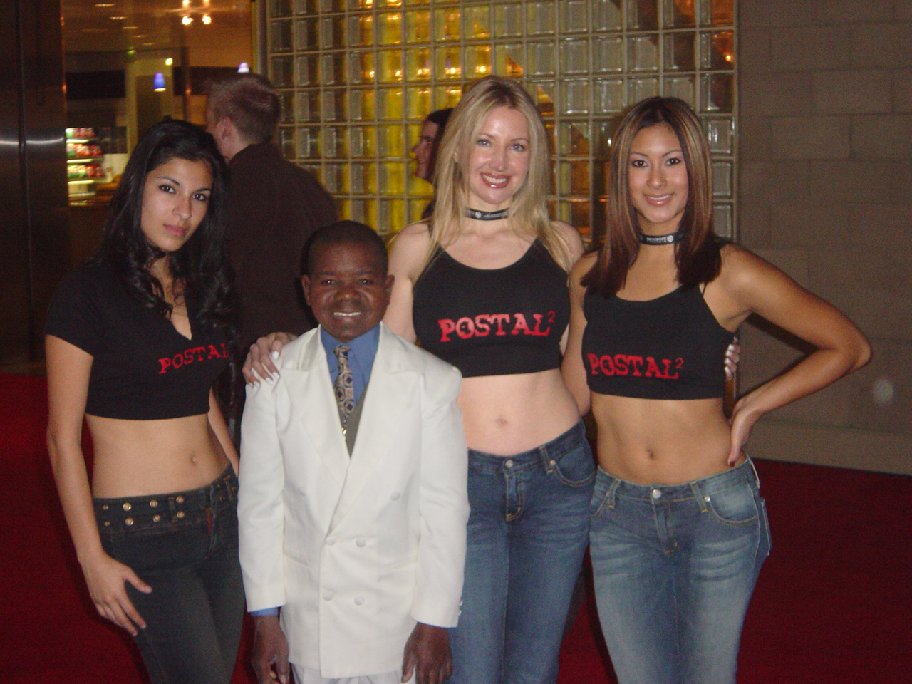 Taken on May 15, 2003 Dowtown Carrier Annex, Los Angeles, CA, US Sony Cybershot